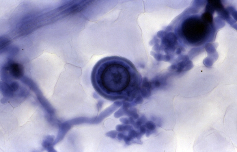 Hyphea of Hyaloperonospora parasitica (downy mildew) growing within the leaf of a compatible (susceptible) Arabidopsis thaliana (cf.wikipedia) observed by bright-field microscopy. The staining with trypan blue makes the cytoplasm of H. parasitica dark blue. The long structure is the hyphea, whereas the little spheres are haustoria. Bigger dark spheres are Oospores, the long term storage form of H. parasitica. This is the mating step of the short life cycle of H. parasitica.